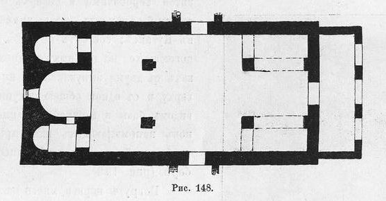 A plan of the Tigva church from Uvarova's report of 1894